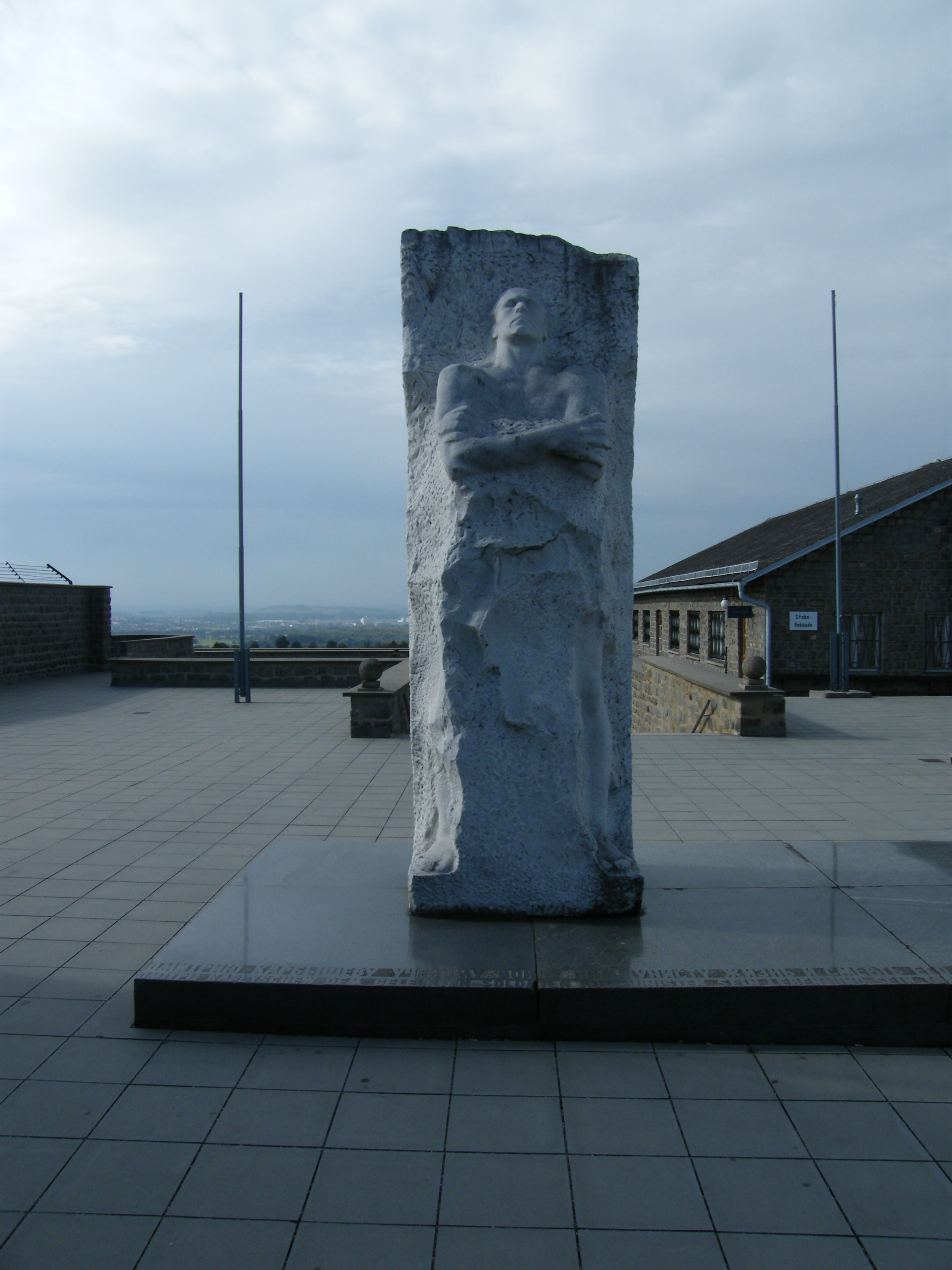 Statue of Dimitri Michailowitsch Karbischew. Lieutenant General of the army engineers of the Soviet army. In the icy cold, the Nazis deprived him of all clothing and doused him with cold water until the body of the generals was solidified into a lump of ice. The body of General was in the oven at Mauthausen burned by the fascists. Many prisoners were subjected to this mistreatment.